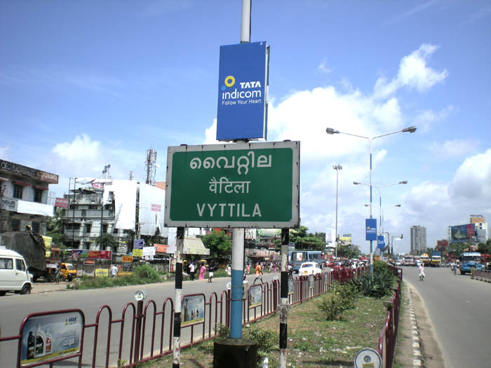 Vytilla junction, National Highway Authority of Inida (NHAI) Sign board showing the place name, with the traffic junction in the background